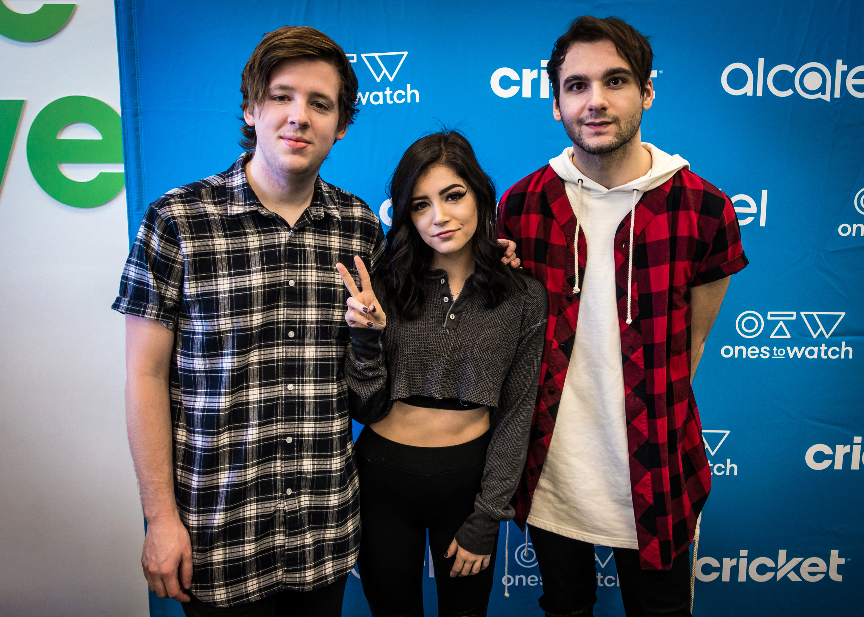 Against The Current appearing at Cricket Wireless in Hollywood, Los Angeles, California, on Sunday, December 4, 2016.